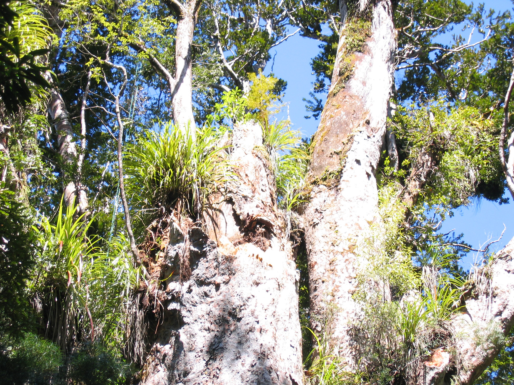 Agathis australis "Te Matua Ngahere" in Waipoua Forest.